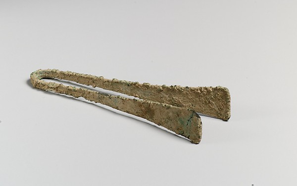 A pair of bronze tweezers attributed to the Minoan civilization, circa 2900–1050 B.C.